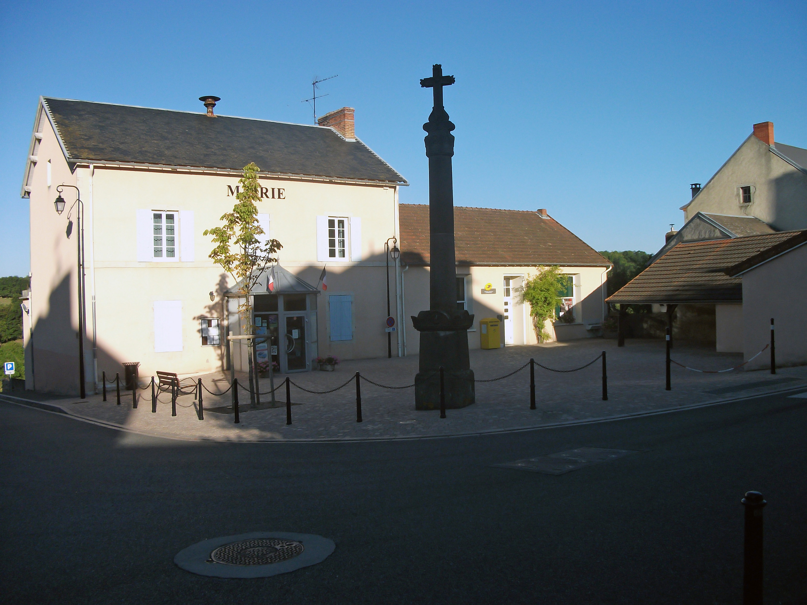 Town hall of Busset one second before 7pm o'clock